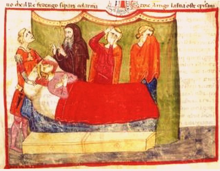 Nuova Cronica